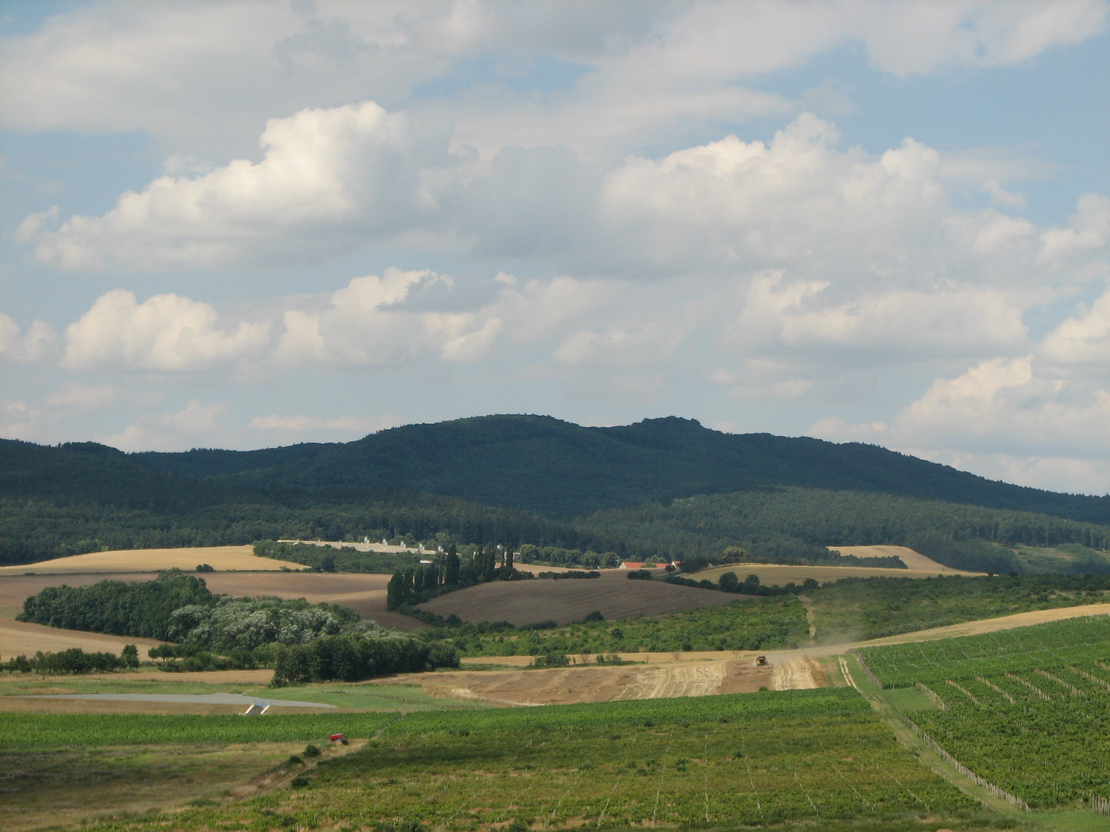 View of Chřiby mountains from Hýsly